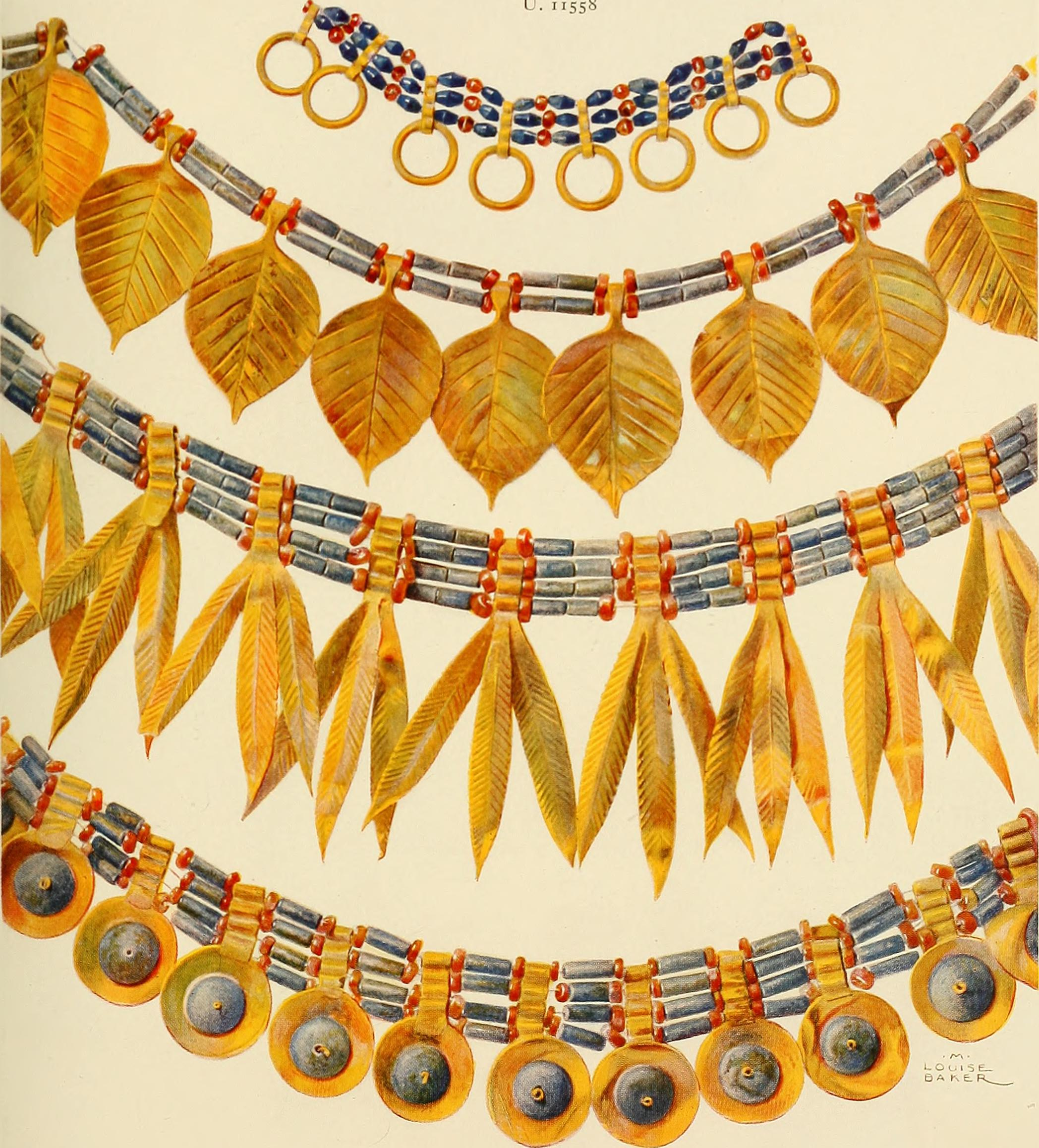 Title: Ur excavations Year: 1900 (1900s) Authors: Joint Expedition of the British Museum and of the Museum of the University of Pennsylvania to Mesopotamia Hall, H. R. (Harry Reginald), 1873-1930, ed Woolley, Leonard, Sir, 1880-1960 Legrain, Leon, 1878- ed Subjects: Publisher: (n.p.) Pub. for the Trustees of the Two Museums by the aid of a grant from the Carnegie Corporation of New York Text Appearing Before Image: U. 8569 BEADS V. Ch. XVIII M. Louise Baker del. PLATE 135 U. 11558 Text Appearing After Image: U. 12380. HEAD-DRESS OF THE WOMAN NO. 61 IN THE GREAT DEATH-PIT, PG/1237Slightly reduced v. p. 120 and PI. 144 PLATE 136